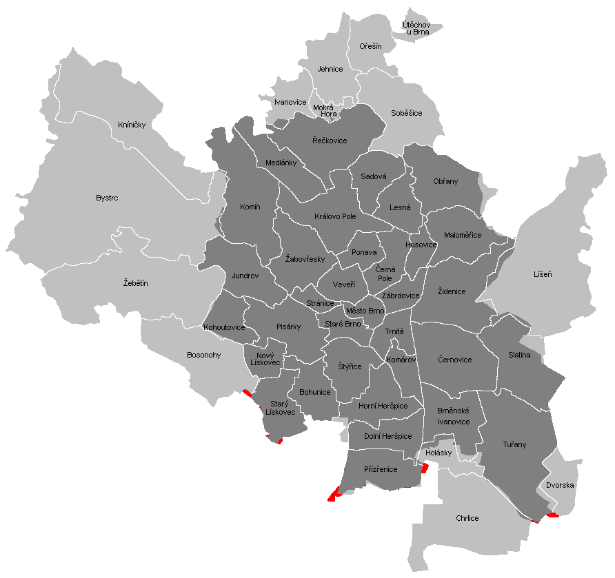 Cadastral map of Greater Brno. Dark-grey and red areas - territory of Greater Brno; Dark-grey and bright-grey areas: current Brno. Red areas: these areas are not part of current Brno.